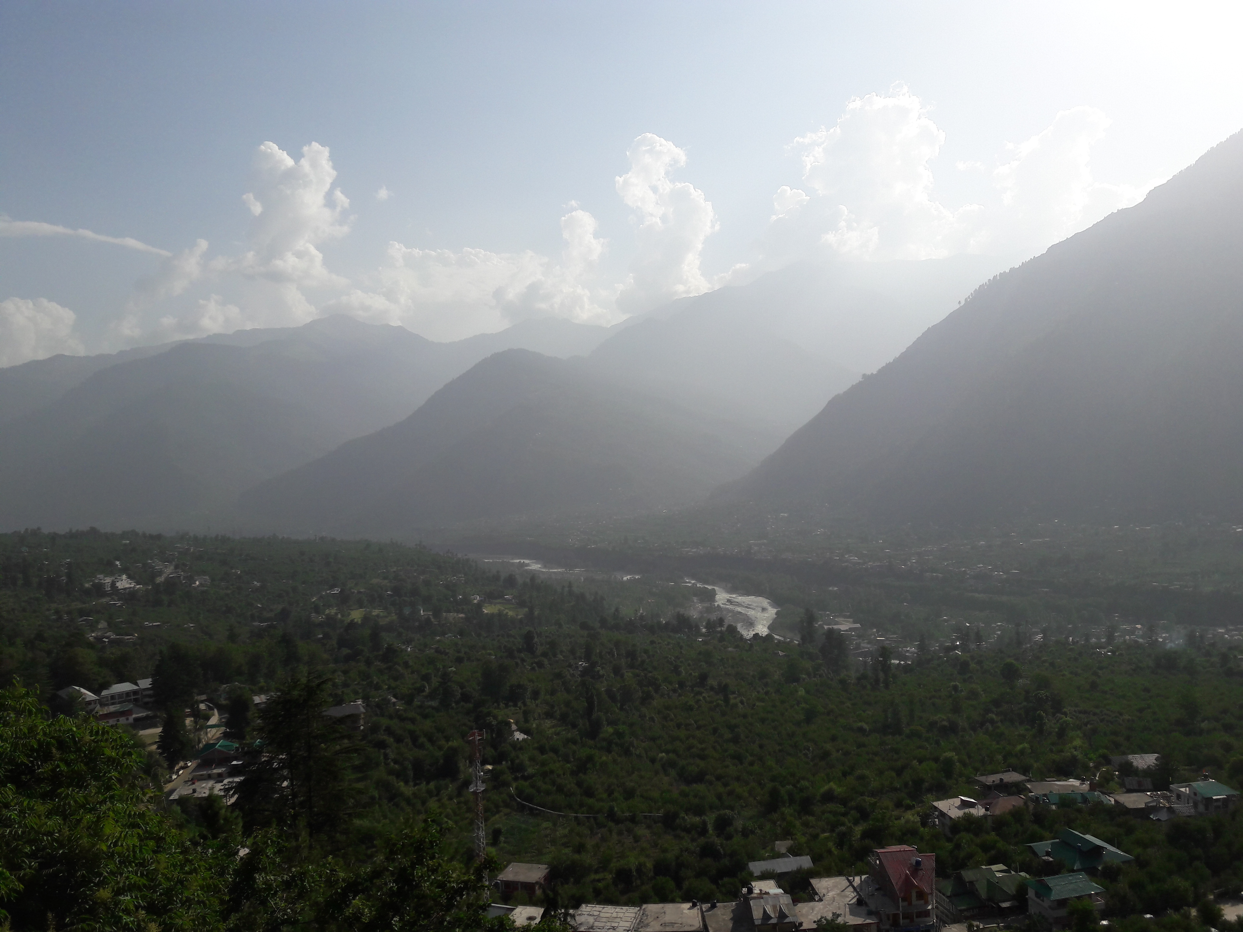 View of Kullu as seen from the Naggar Castle